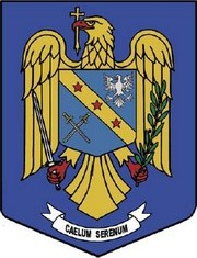 Coat of Arms of the Romanian General Inspectorate of Aviation of the Minister of Administration and Interior